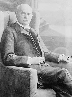 Austro-Hungarian diplomat Marquis János Pallavicini (Johann von Pallavicini